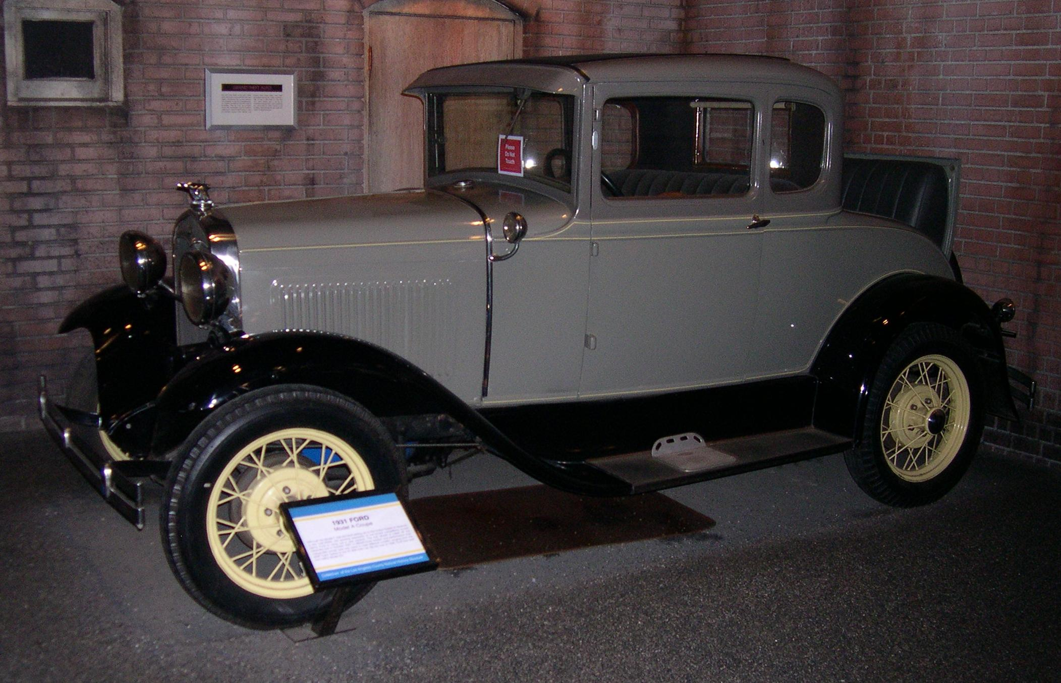 1931 Ford Model A coupe From the Petersen Automotive Museum, Los Angeles, CA